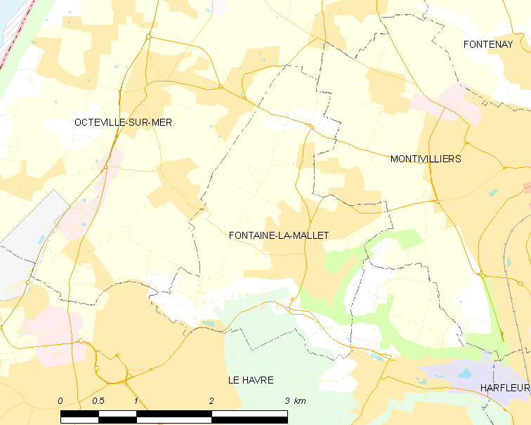 Map of French municipality Fontaine-la-Mallet